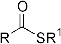 General structure of a thioester created with ChemDraw.